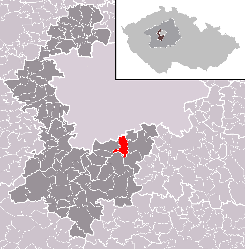 Location of Zlatníky-Hodkovice municipality within Prague-West District and administrative area of Černošice as a Municipality with Extended Competence.